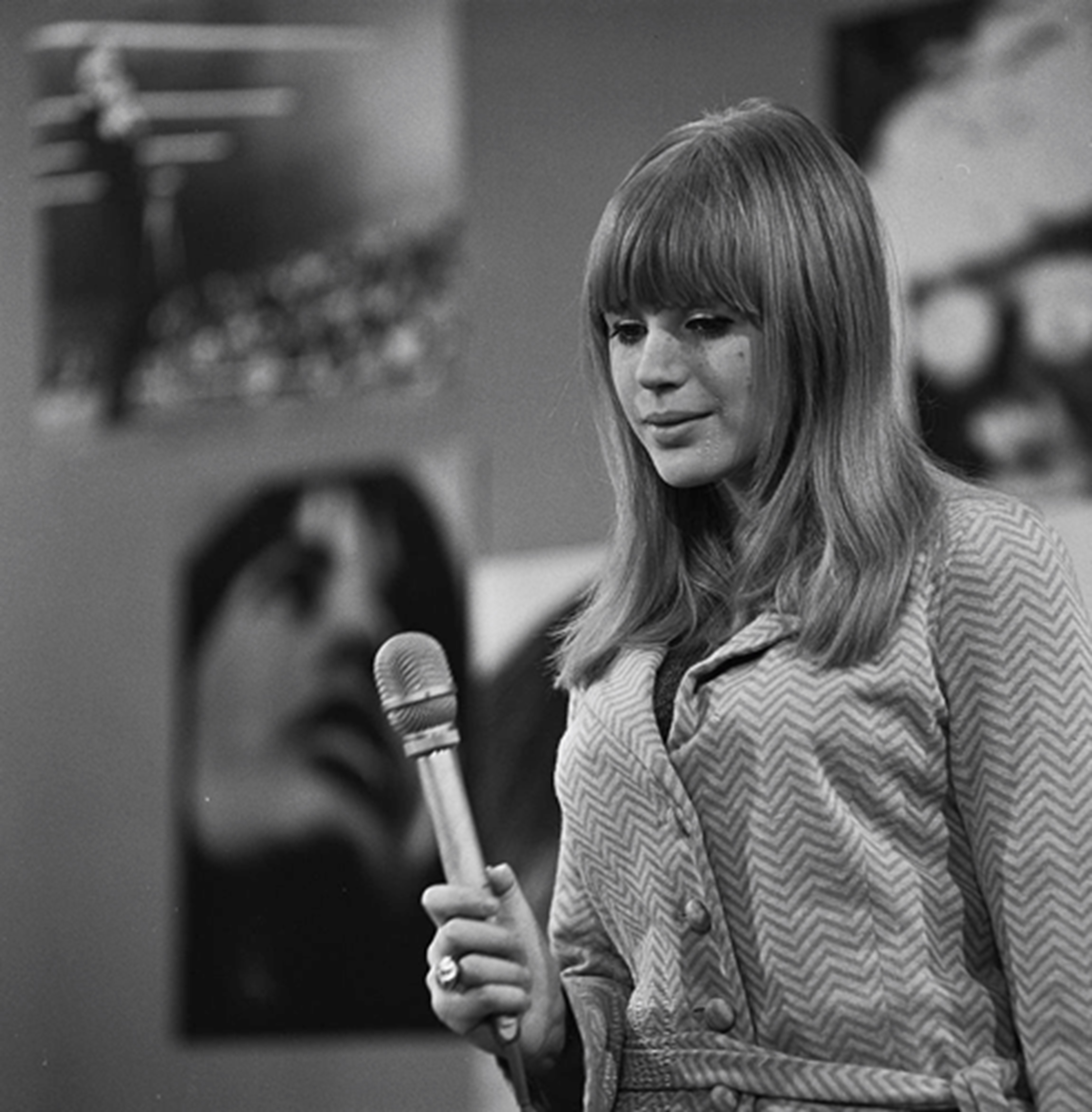 Marianne Faithfull singing "This little bird", "Yesterday", "Summer nights" and "As Tears go by" in Dutch TV programme Fanclub, 11 March 1966